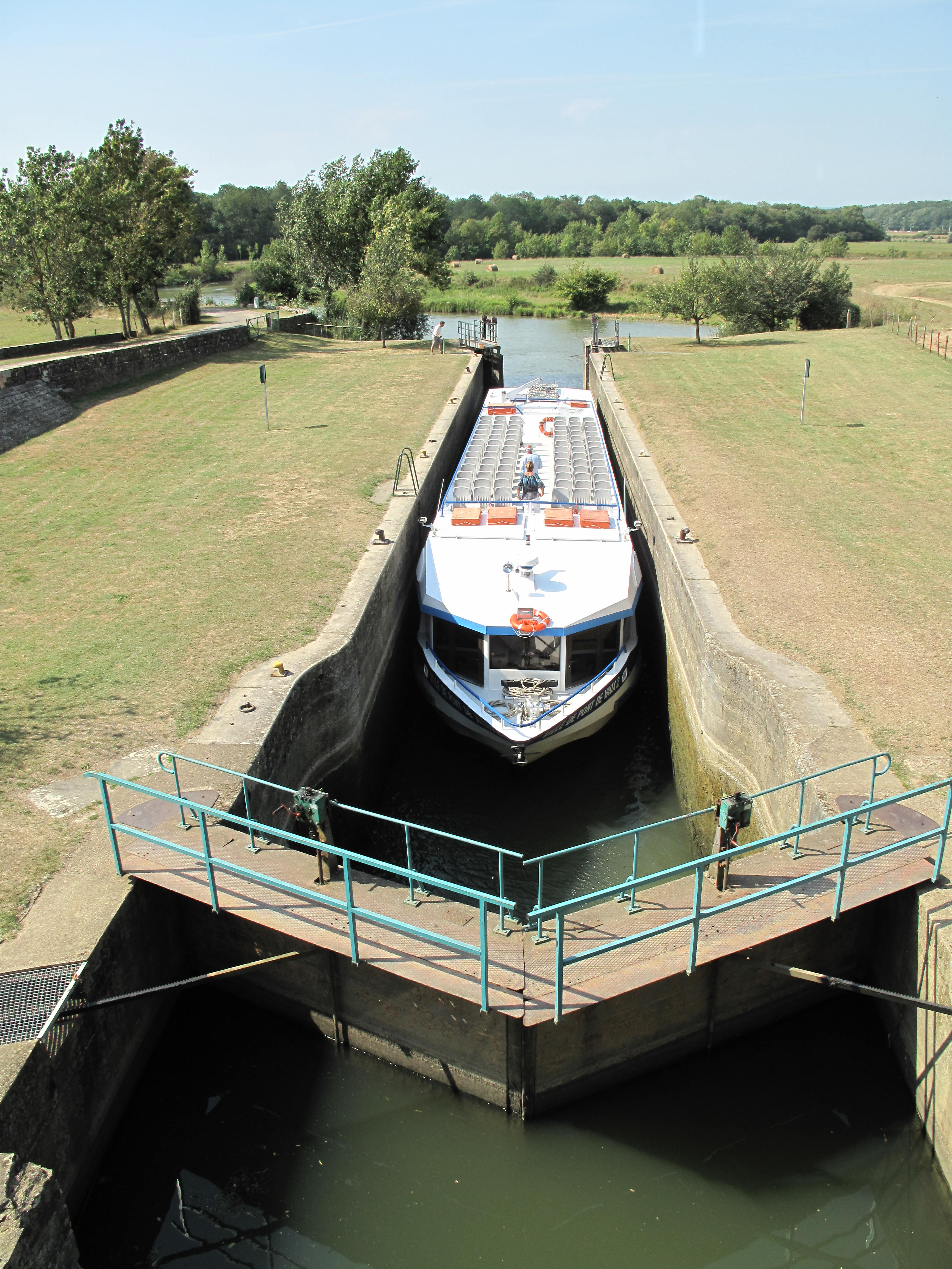 Canal lock of la Truchere on the canal de la Seille, near Tournus, France